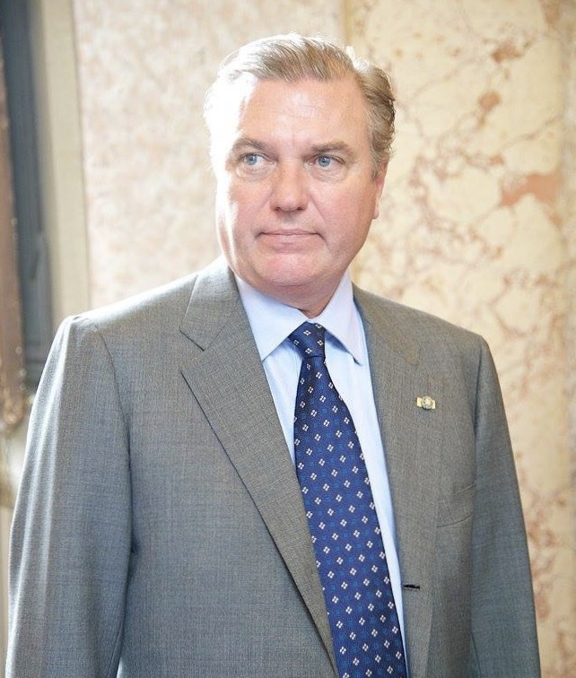 Prince Carlo and Princess Beatrice attend an event at the Pallavicini Palace